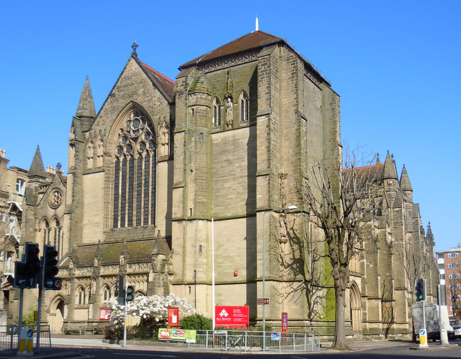 All Saints Church, Eaton Road, Hove, City of Brighton and Hove, England. The parish church of Hove since 1892. Listed at Grade I by English Heritage (NHLE Code 1187592)